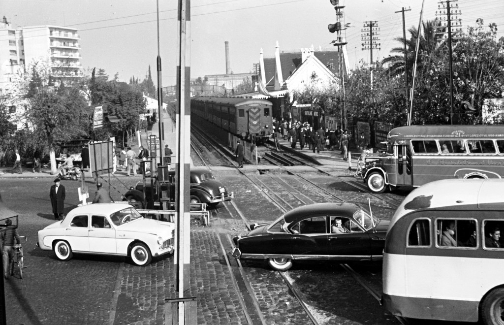 Level crossing in Avenida Maipú, Vicente López Partido of Greater Buenos Aires. The train is stopped in Bartolomé Mitre station and the railway line extended to Delta station in Tigre Partido. The crossing had also four manually-operated gates. The photo was taken on October 8, 1961, the same day that the branch was closed. It remained inactive until 1995 when the ramal Mitre-Delta was reopened, although a pedestrian bridge was built over the Avenue instead of the level crossing, in order to avoid traffic congestions.